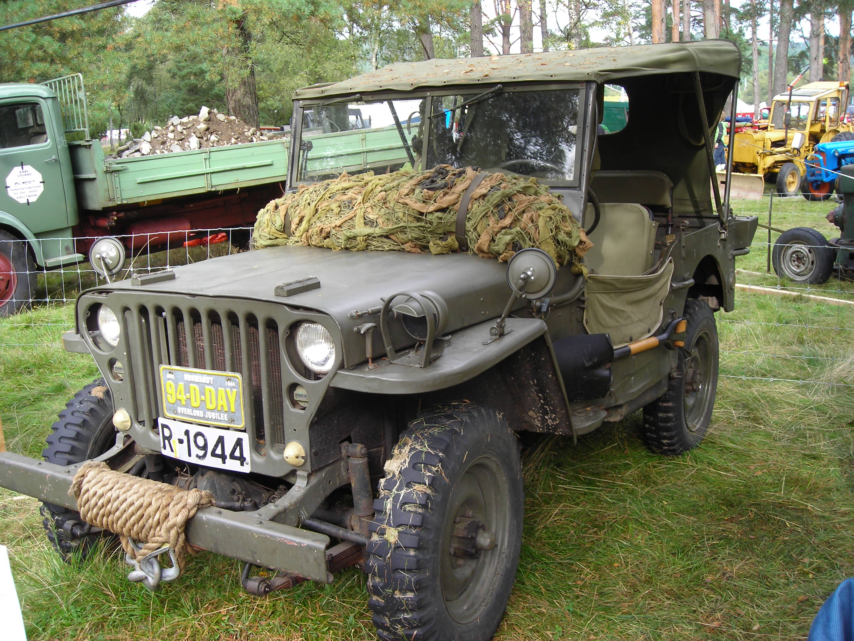 Willys MB, as front frame crossmember suggests.